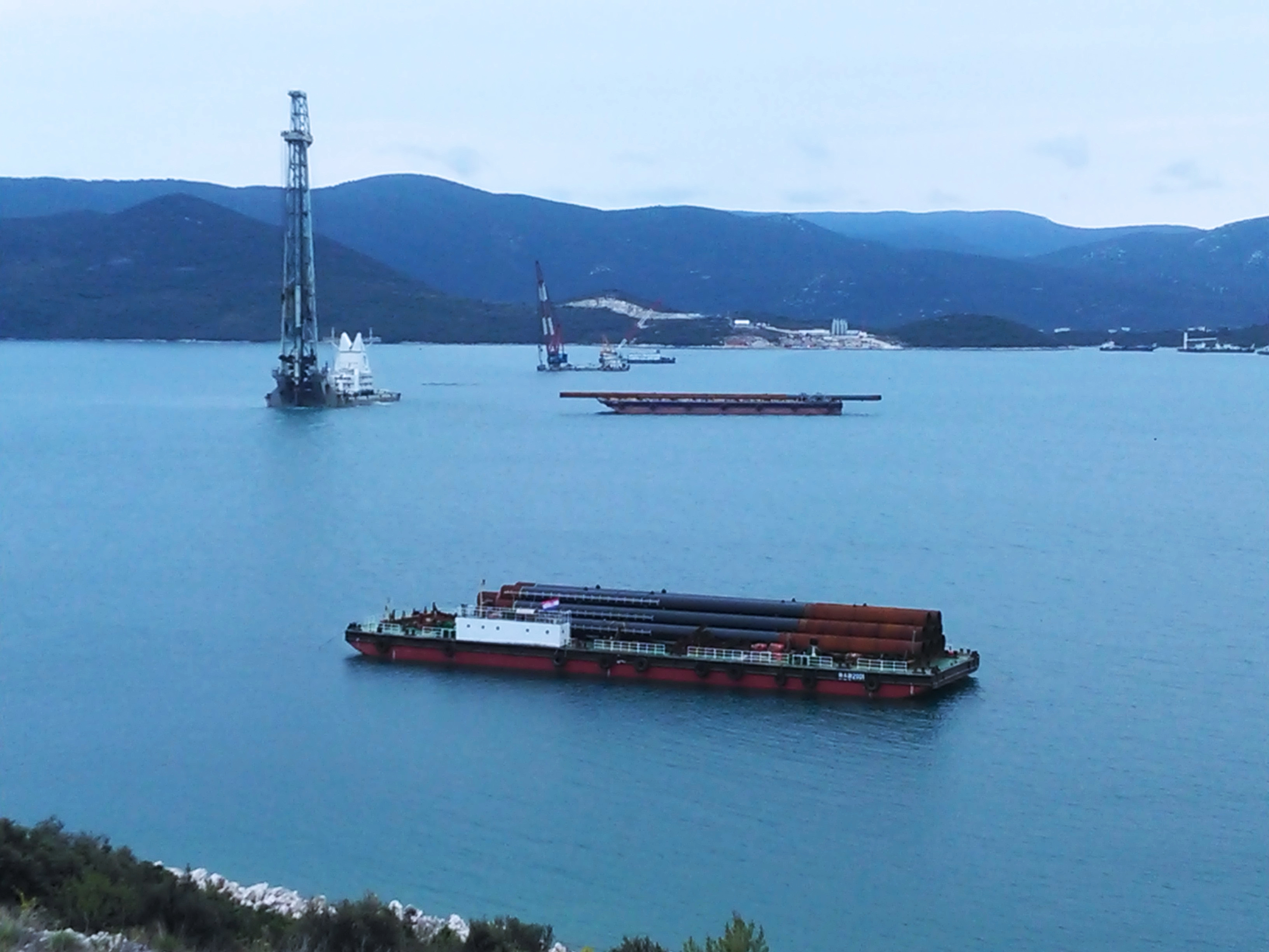 Pelješac bridge construction site